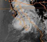 Hurricane Hillary making landfall in Baja California on 1993-07-25